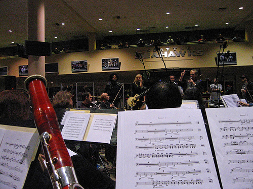 a bassoon eye view of the rehearsal for the benefit concert.